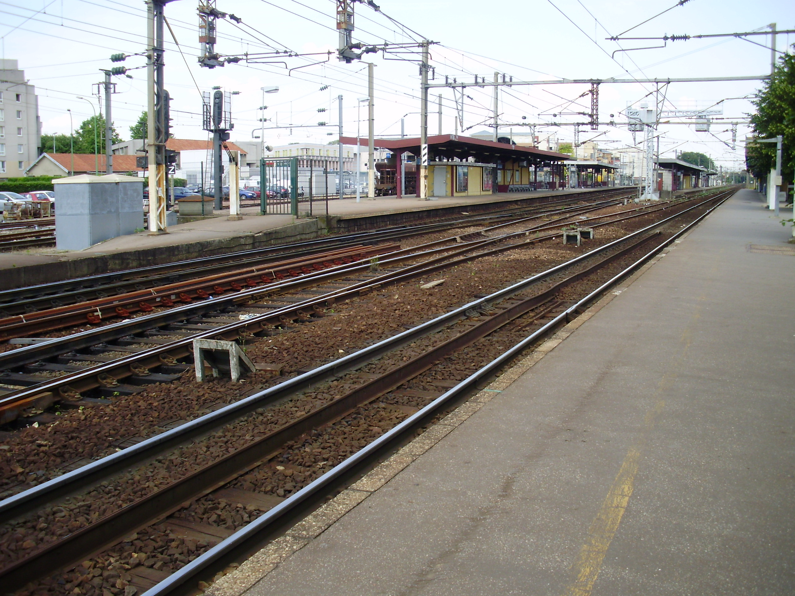 Conflans-Sainte-Honorine station, Yvelines, France (view towards Paris from the west extremity of the platform to Mantes-la-Jolie or Pontoise)